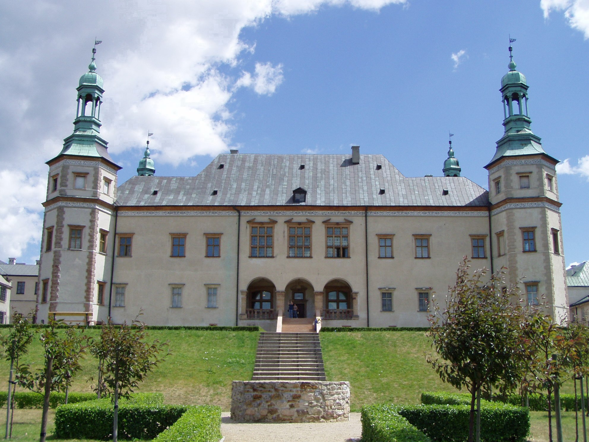 The Gardens, with well head of water well, in front of the late Renaissance Polish Mannerism style facade and towers of the Palace of the Kraków Bishops in Kielce, Poland